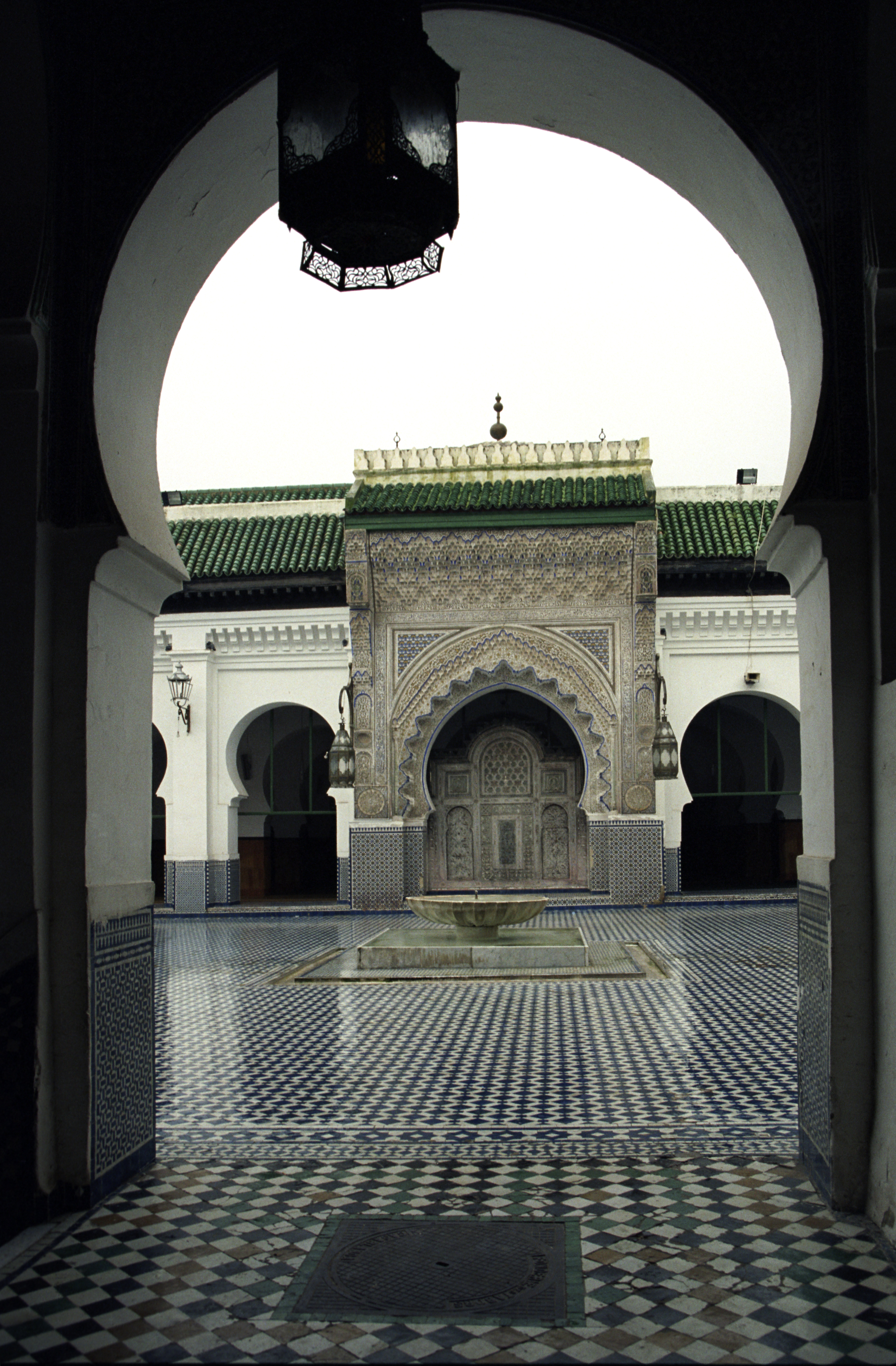 Fes. University of al-Karaouine